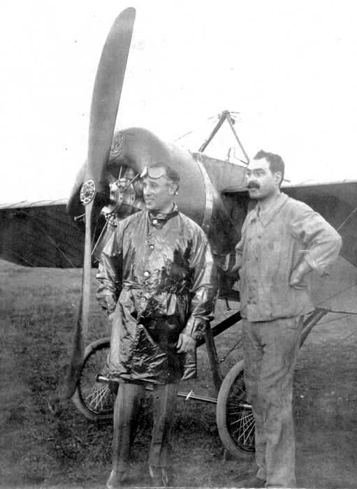 Jorge Newbery frente a su avión